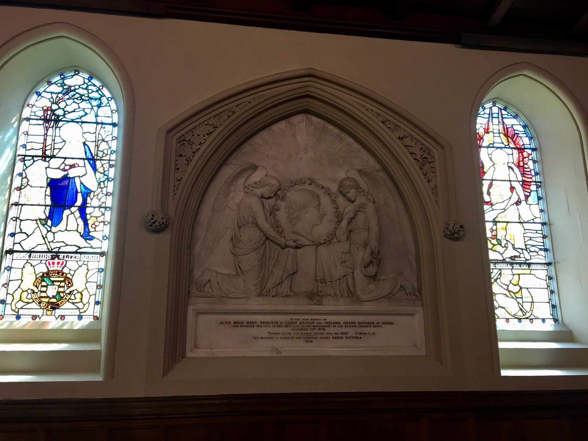 Memorial to Princess Alice of the United Kingdom in St Mildred's Church, Whippingham, Isle of Wight